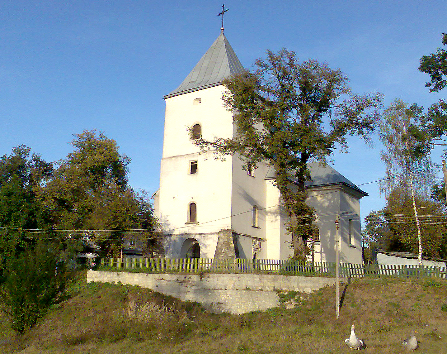 St.Stanislav Defensive Church (1485, rebuilt 1585) in Dunayiv, Lviv Region, Ukraine